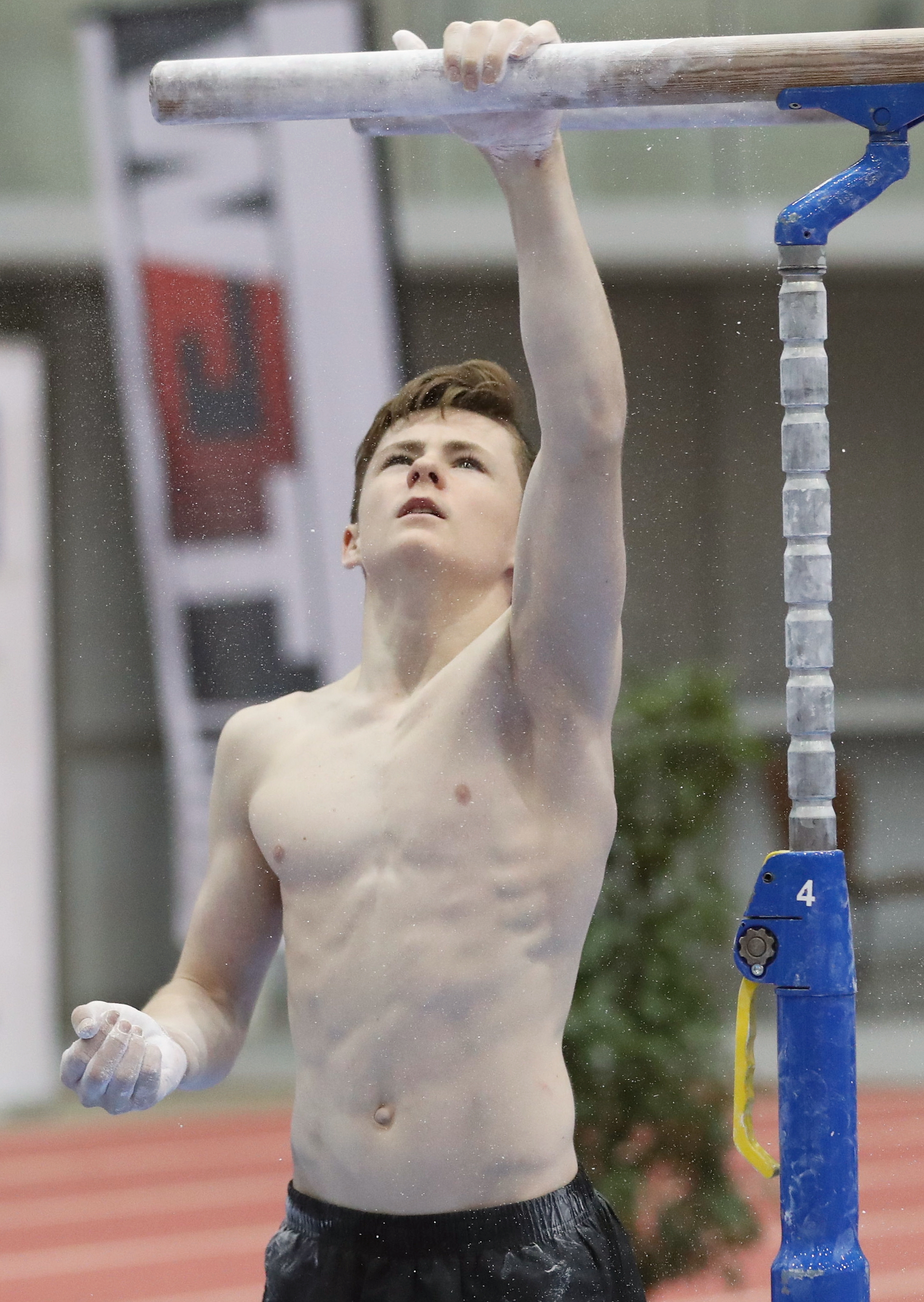 Morning training on parallel bars at the 15th Austrian TGW Future Cup Linz 2018. Depicted: Calvin Currie.